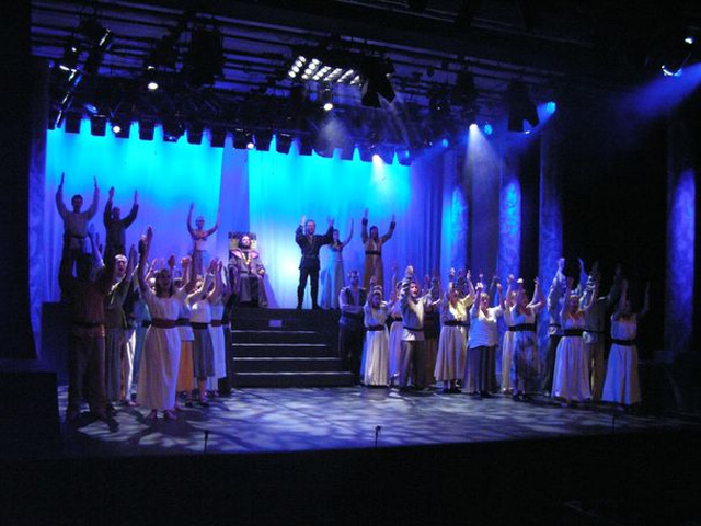 Performance of the Danish musical Atlantis on Herlev Revy og Teater, near Copenhagen, Denmark